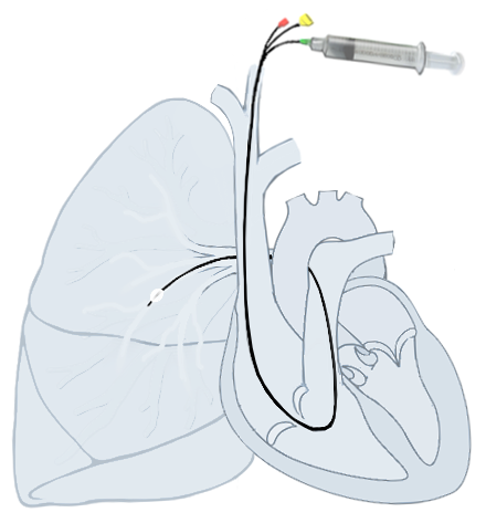 Anatomy of right heart catheterization (Swan-Ganz catheter)